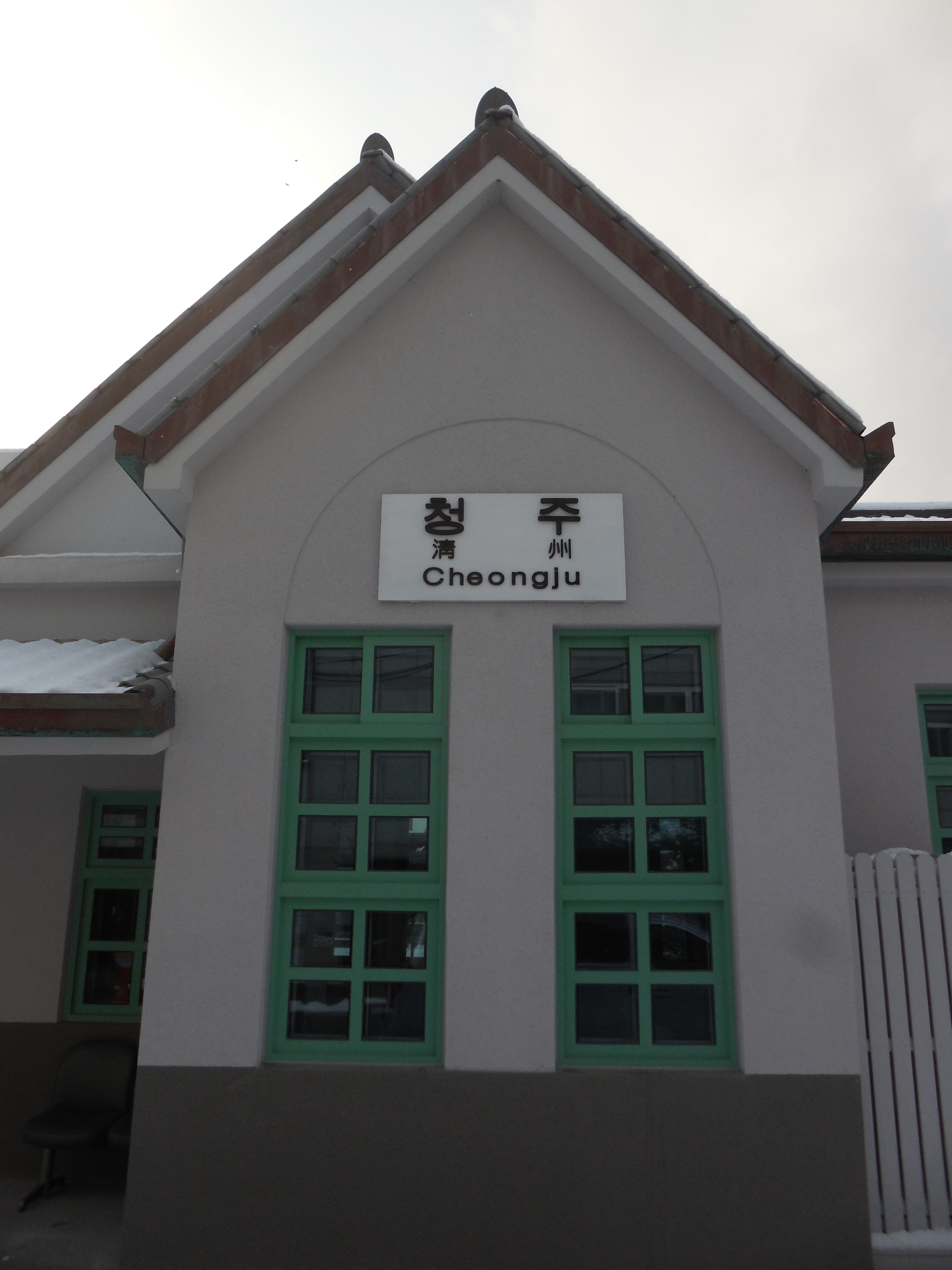 Korea National Railroad Chungbuk Line Cheongju Station (restored).